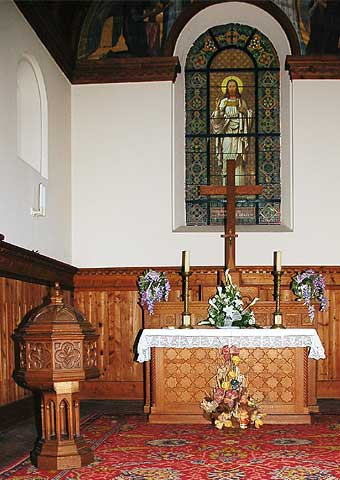 Altar Opatija